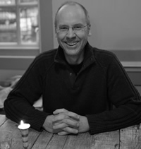 John Caird at home in January 2011